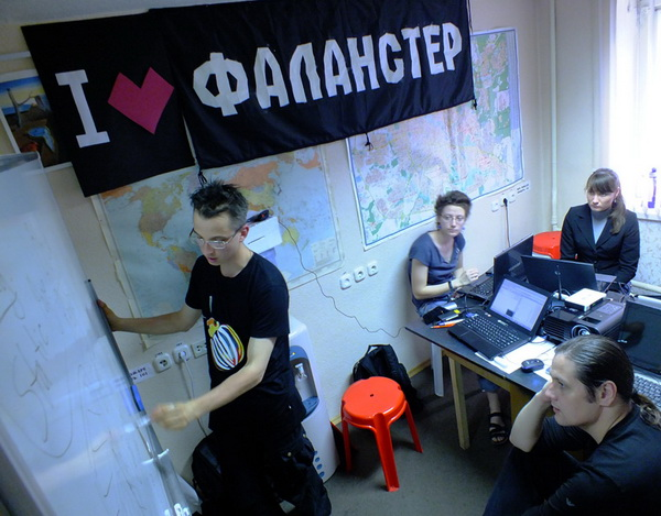 The first global drupal day in Minsk